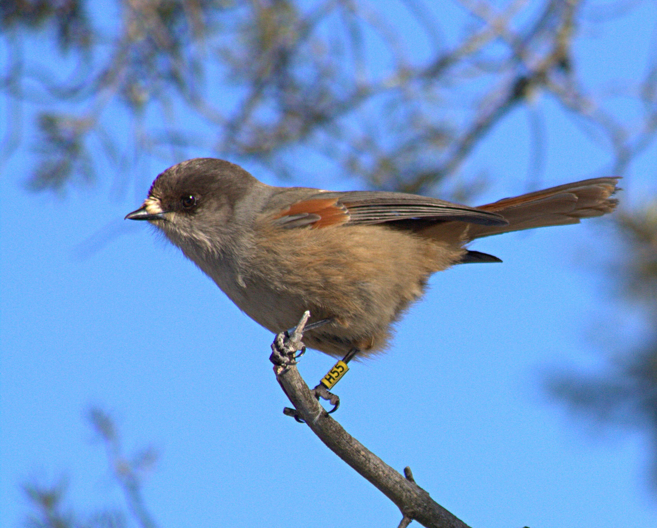 A ringed Siberian Jay (Perisoreus infaustus) in Kittilä, Finland.